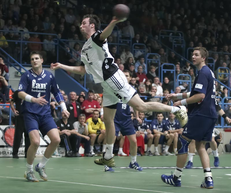 Vid Kavtičnik, on December 30th 2006 in Aschaffenburg (Germany), during the game TV Grosswallstadt - THW Kiel (25:30).